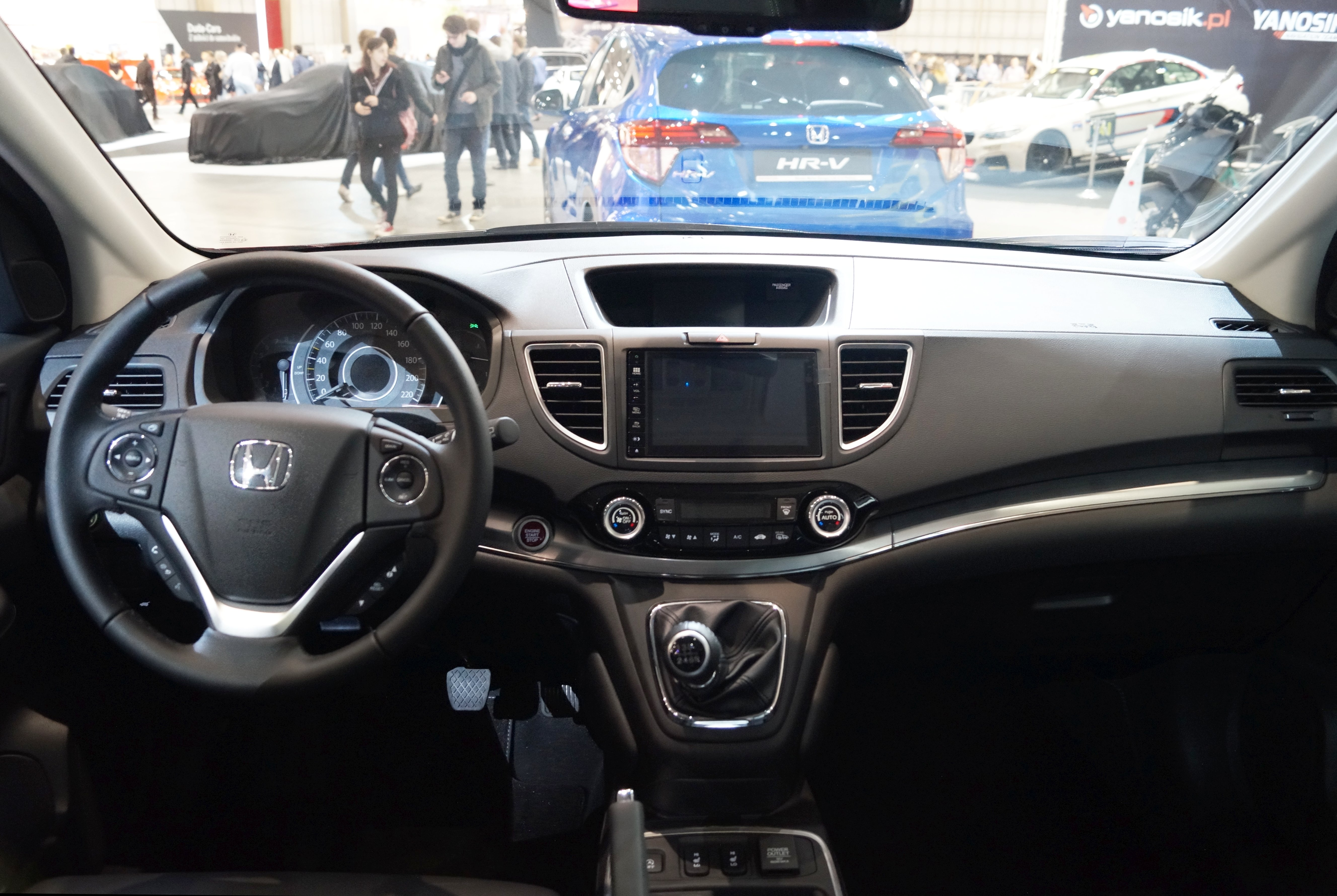 The making of this document was supported by Wikimedia Polska Association, within Wikigrant no. WG 2016-10. Wnętrze Hondy CR-V na Motor Show Poznań 2016